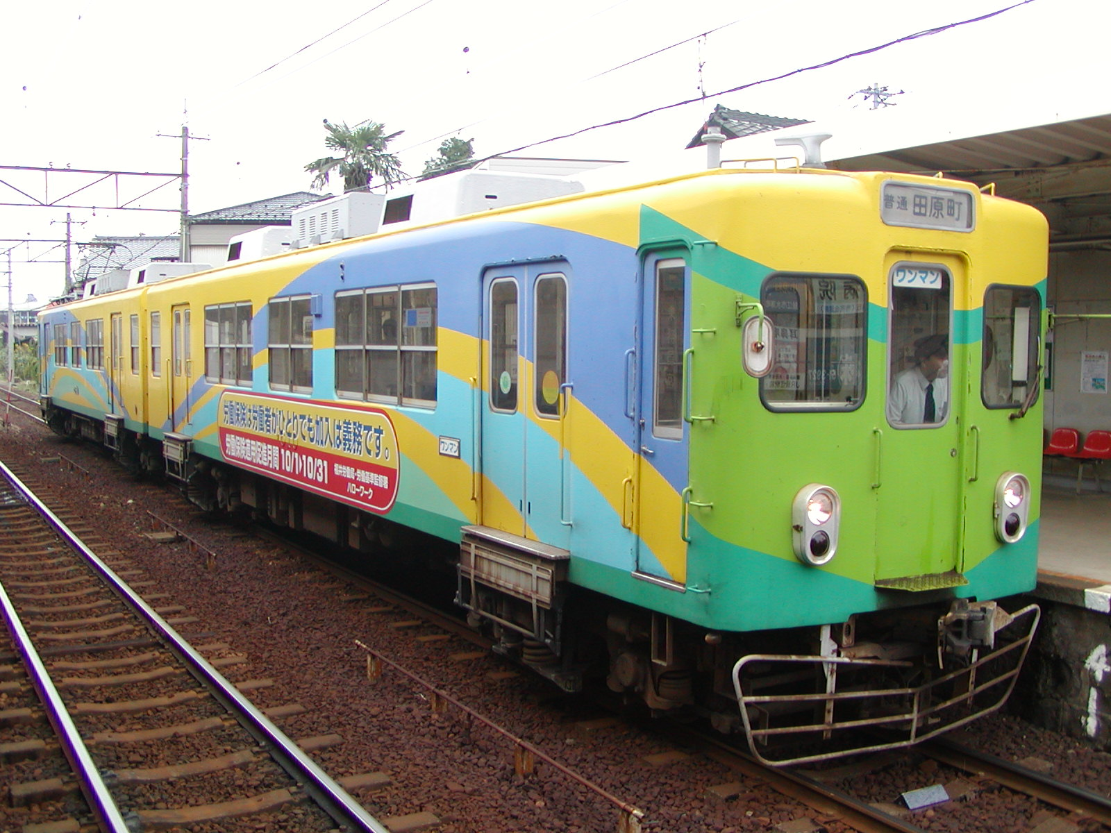 Fukui Railway Type 610（first color）